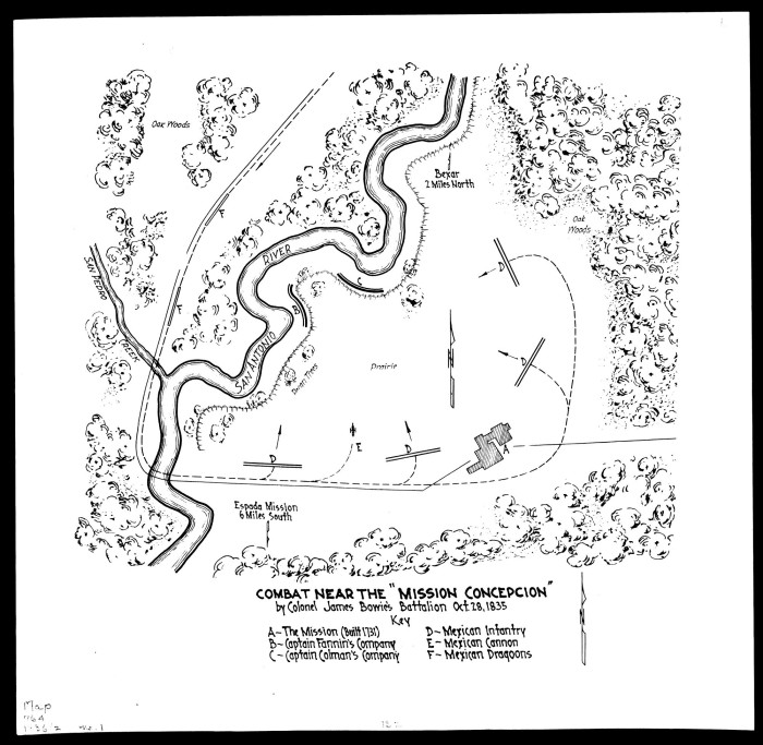 This map depicts the combat at the Battle of Concepcion, during the Siege of Bexar, October 28, 1835.